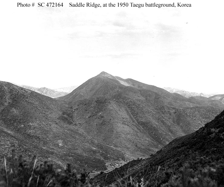 "Saddle Ridge", South Korea Photographed on 2 April 1953. "Saddle Ridge" was part of the Taegu battleground during the Summer 1950 defense of the Pusan Perimeter.